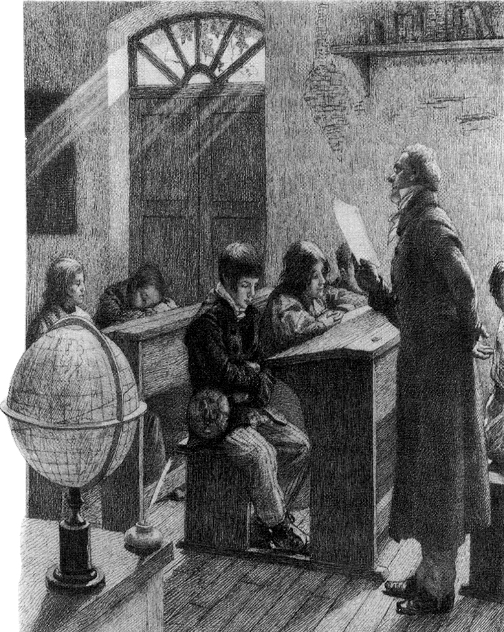 Illustration of Madame Bovary by Gustave Flaubert (1821-1880): Charles Bovary's First Day in Class